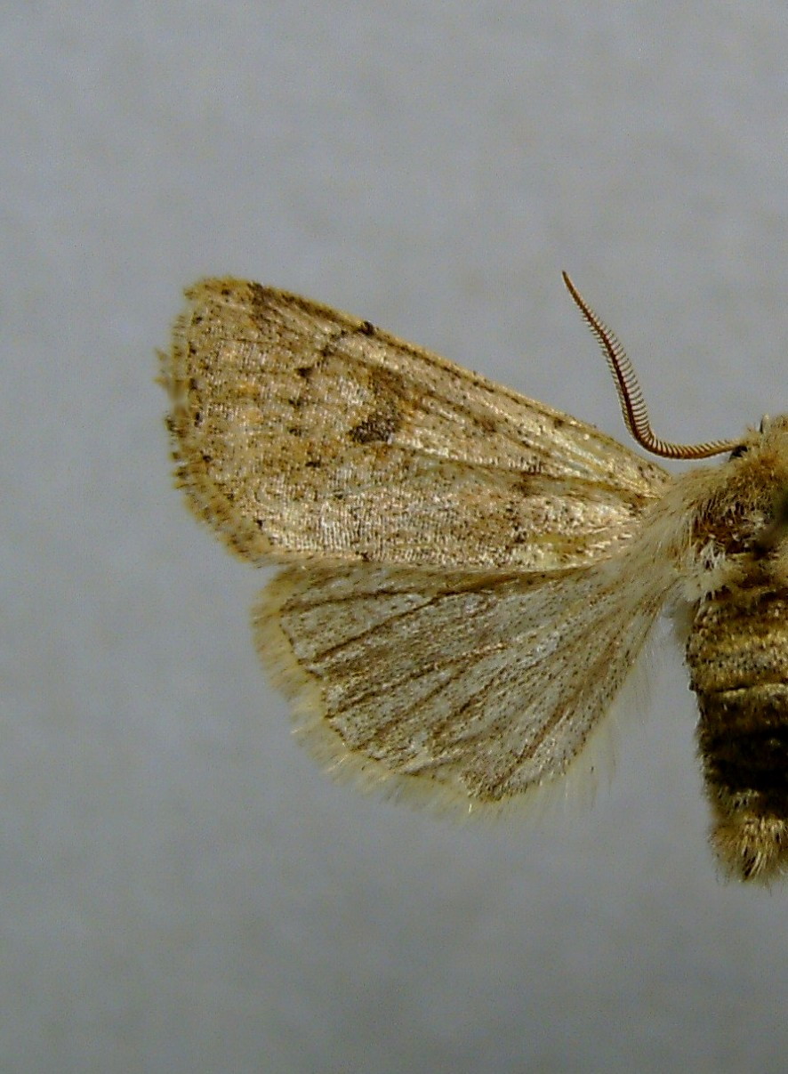 Orthosia cruda, male, Berlin, Spandau Germany